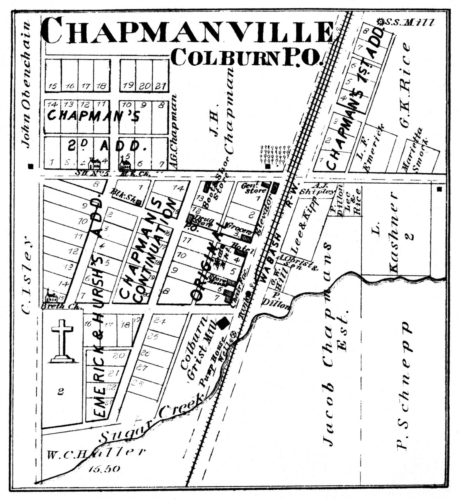 An 1878 map of Chapmanville (later Colburn) in Tippecanoe County, Indiana.